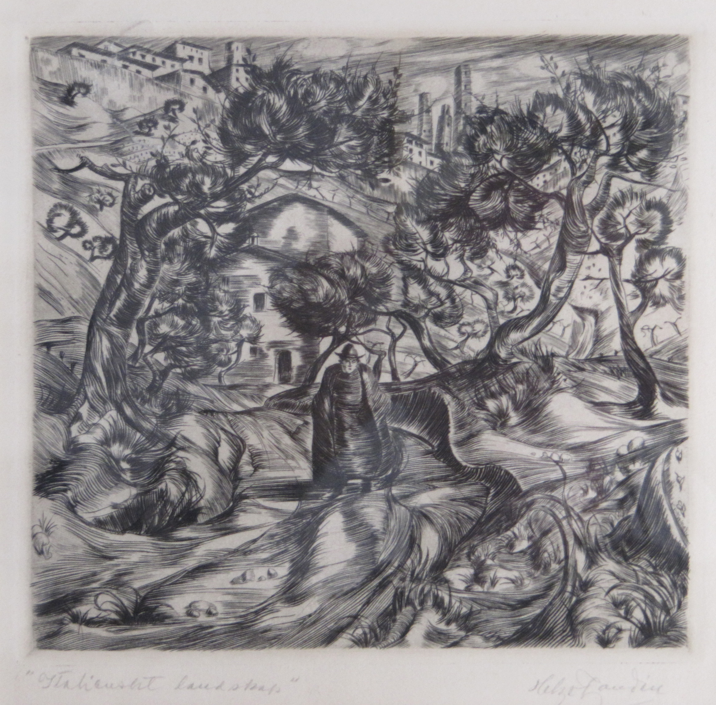 Italian motive by Helge Zandén (1921)